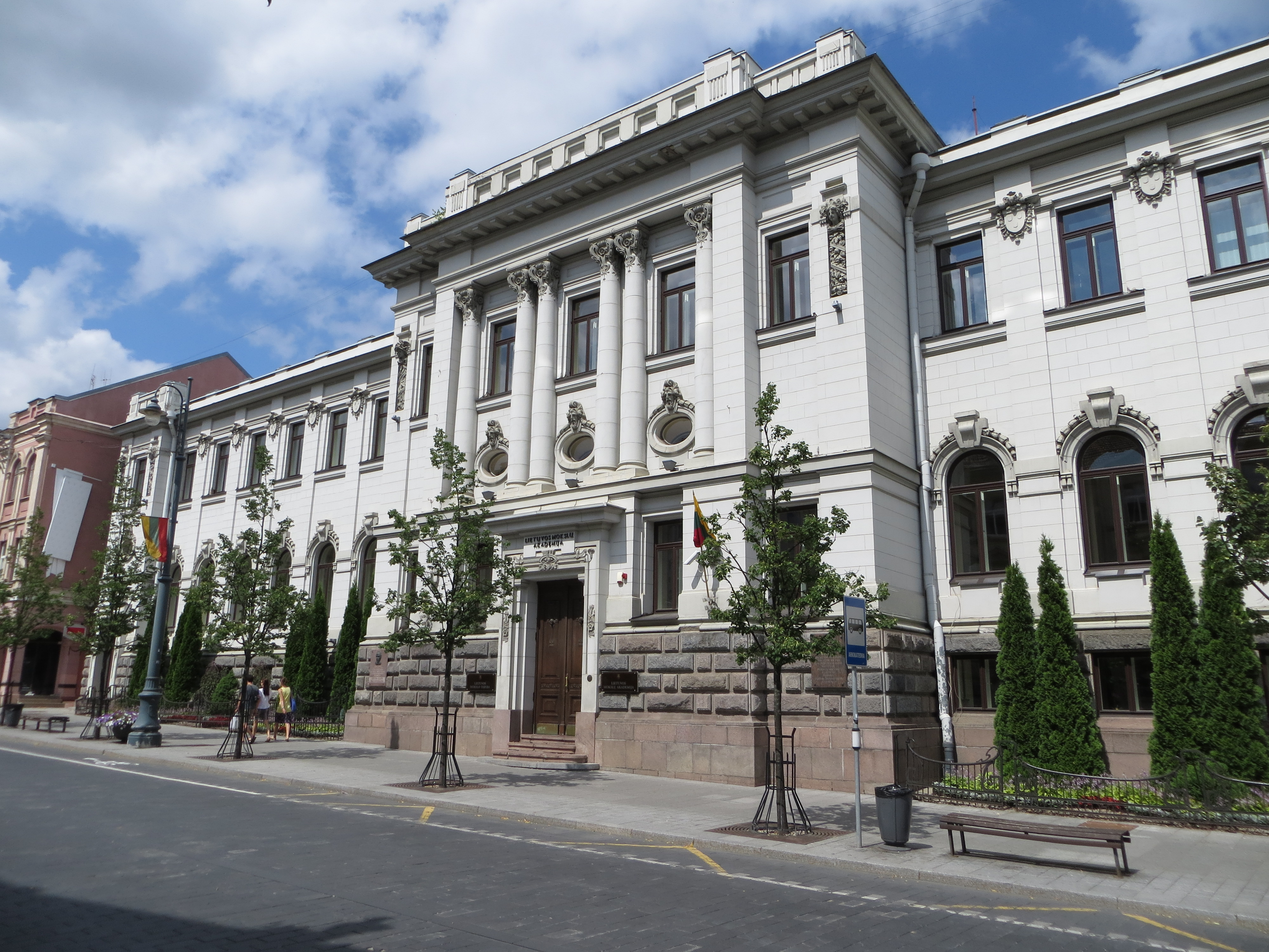 This impressive building on Gedimino prospektas in Vilnius is home to Lietuvos Mokslų Akademijos Leidykla or the Lithuanian Academy of Sciences Publishers.